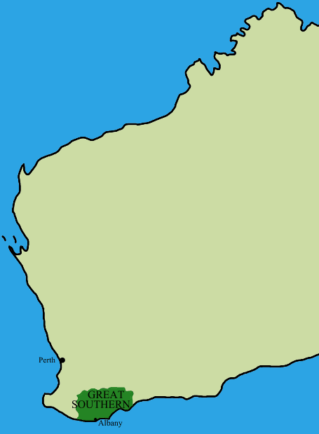 Great Southern region of Western Australia, i made the image